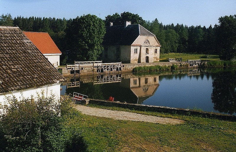 The manor of Vihula has the beautiful pond of the weir on the northeast Estonia.